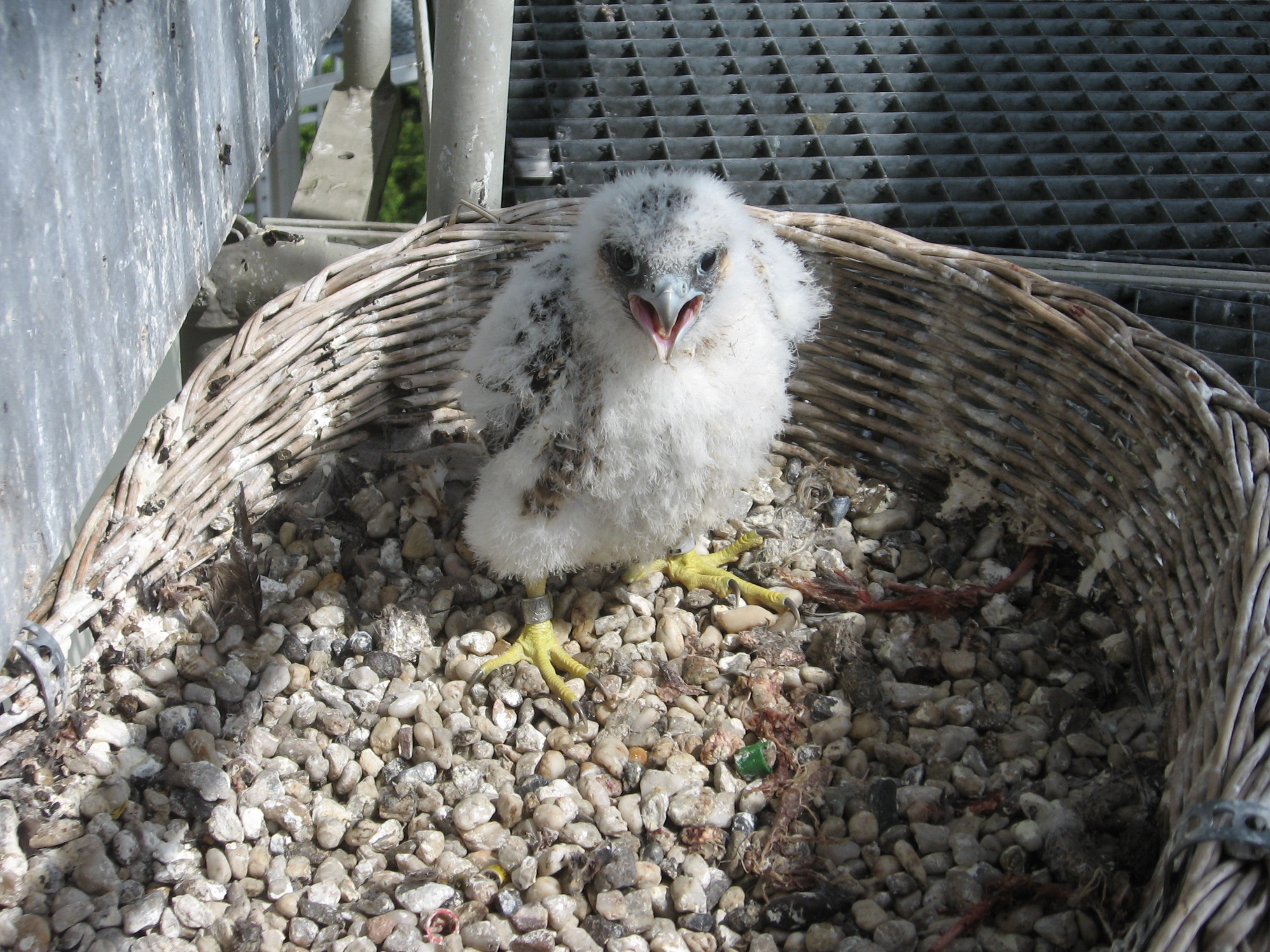 Peregrine chick in basket on telecommunication tower after ringing, area Sauerland, Germany.